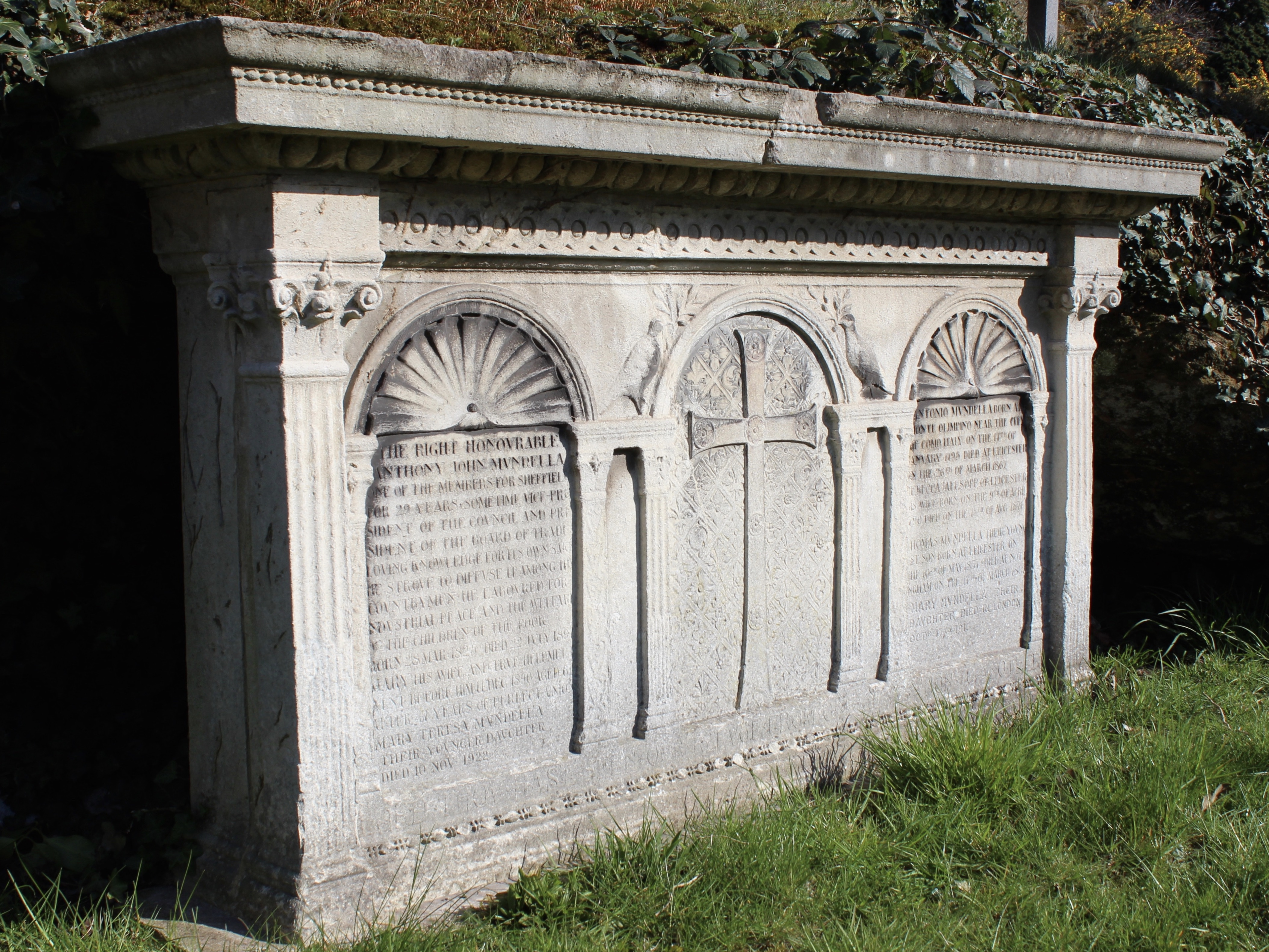 A J Mundella, Mundella burial vault, Church Cemetery,( "Rock" Cemetery), Nottingham, England